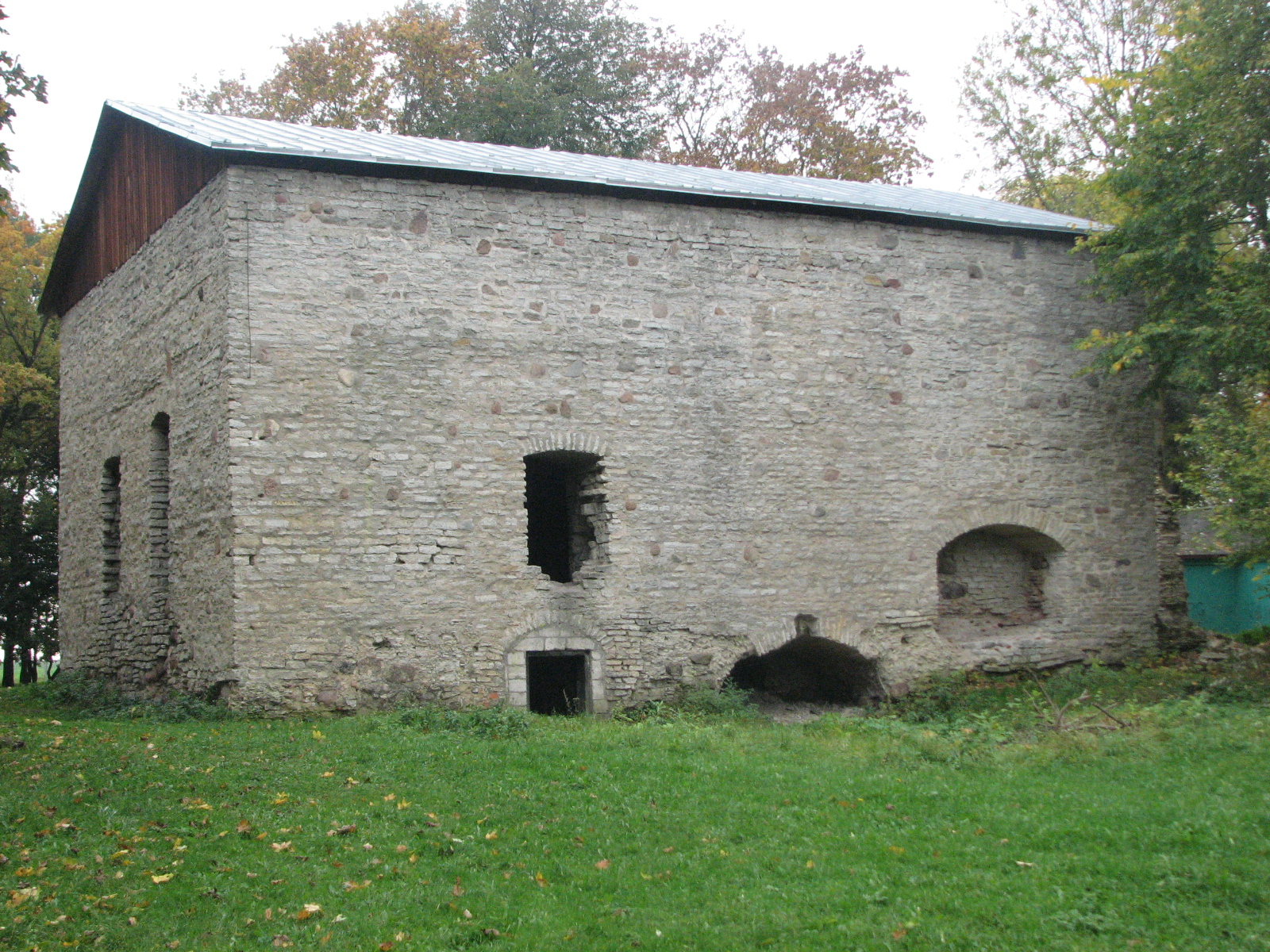 Järve manor, Estonia. Abaout 15 century.